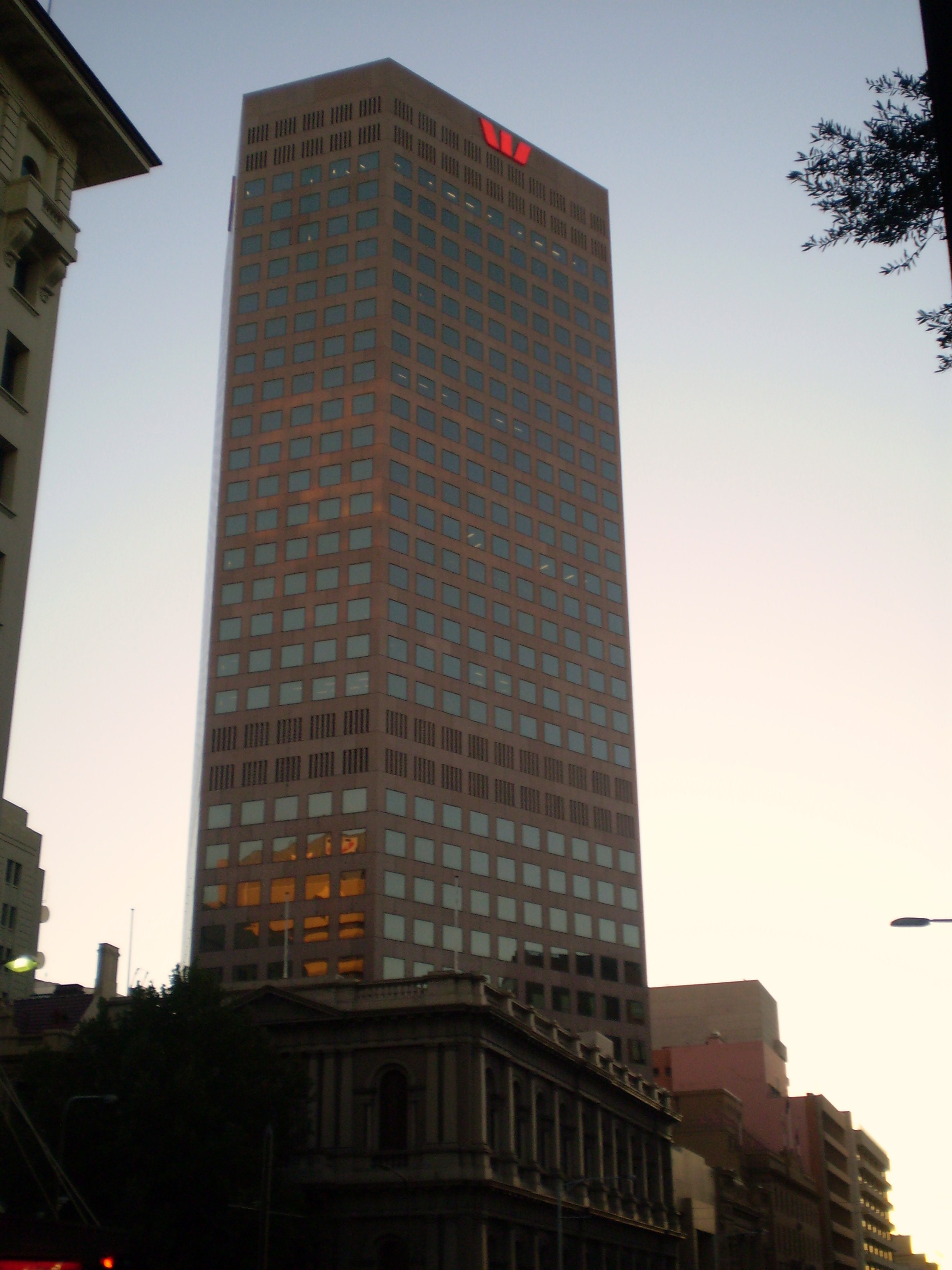 Taken by Norman Hackenberg on 26/2/2008.